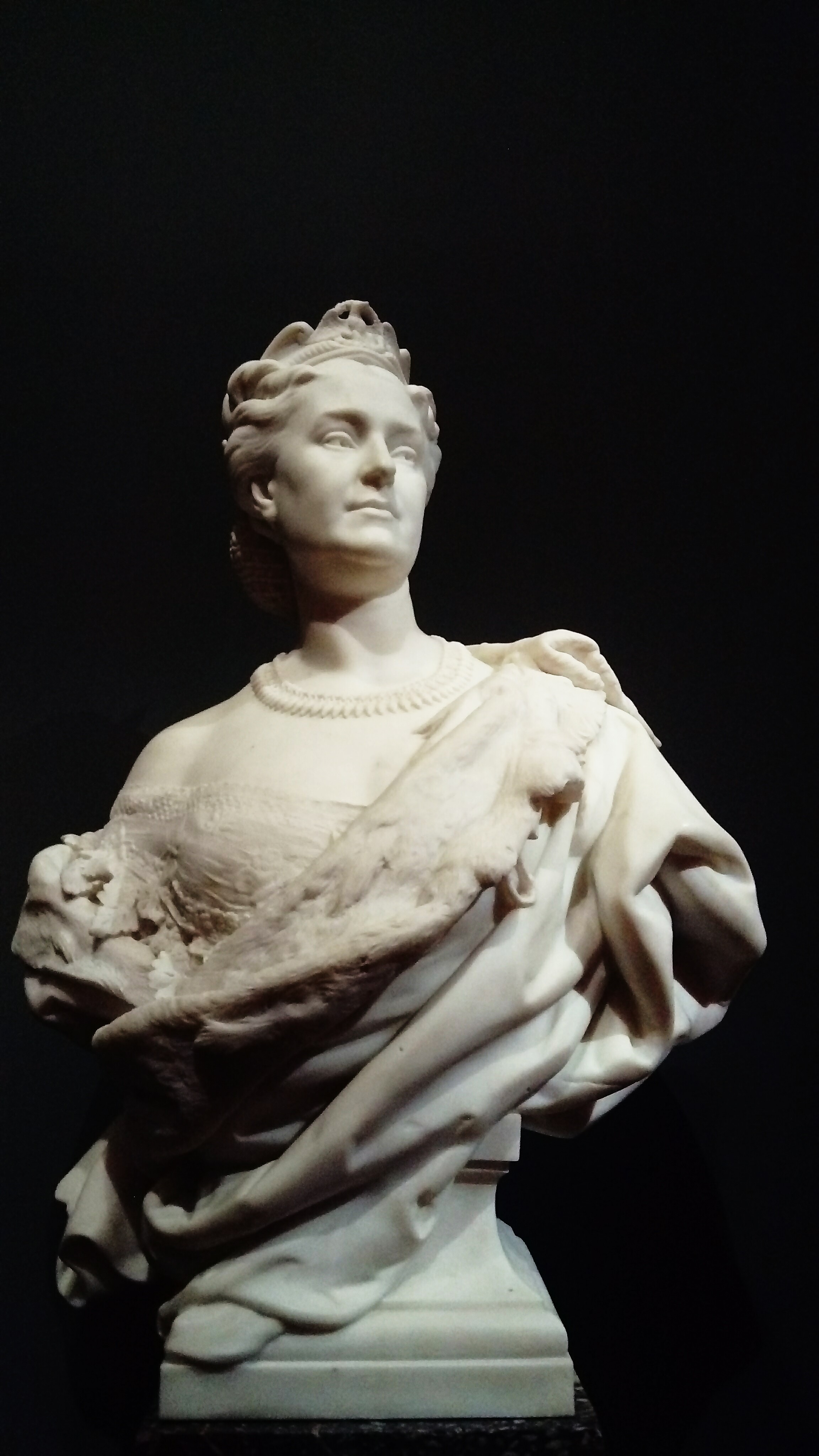 Bust named "Princess Mathilde" representing Mathilde Bonaparte, sculpted in marble by French sculptor Jean-Baptiste Carpeaux (1862). Exhibited in the Musée d'Orsay, in Paris.